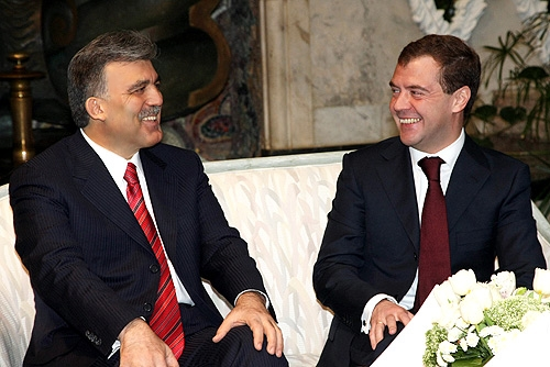 Turkish president Abdullah Gül and Russian president Dmitry Medvedev in Russia.